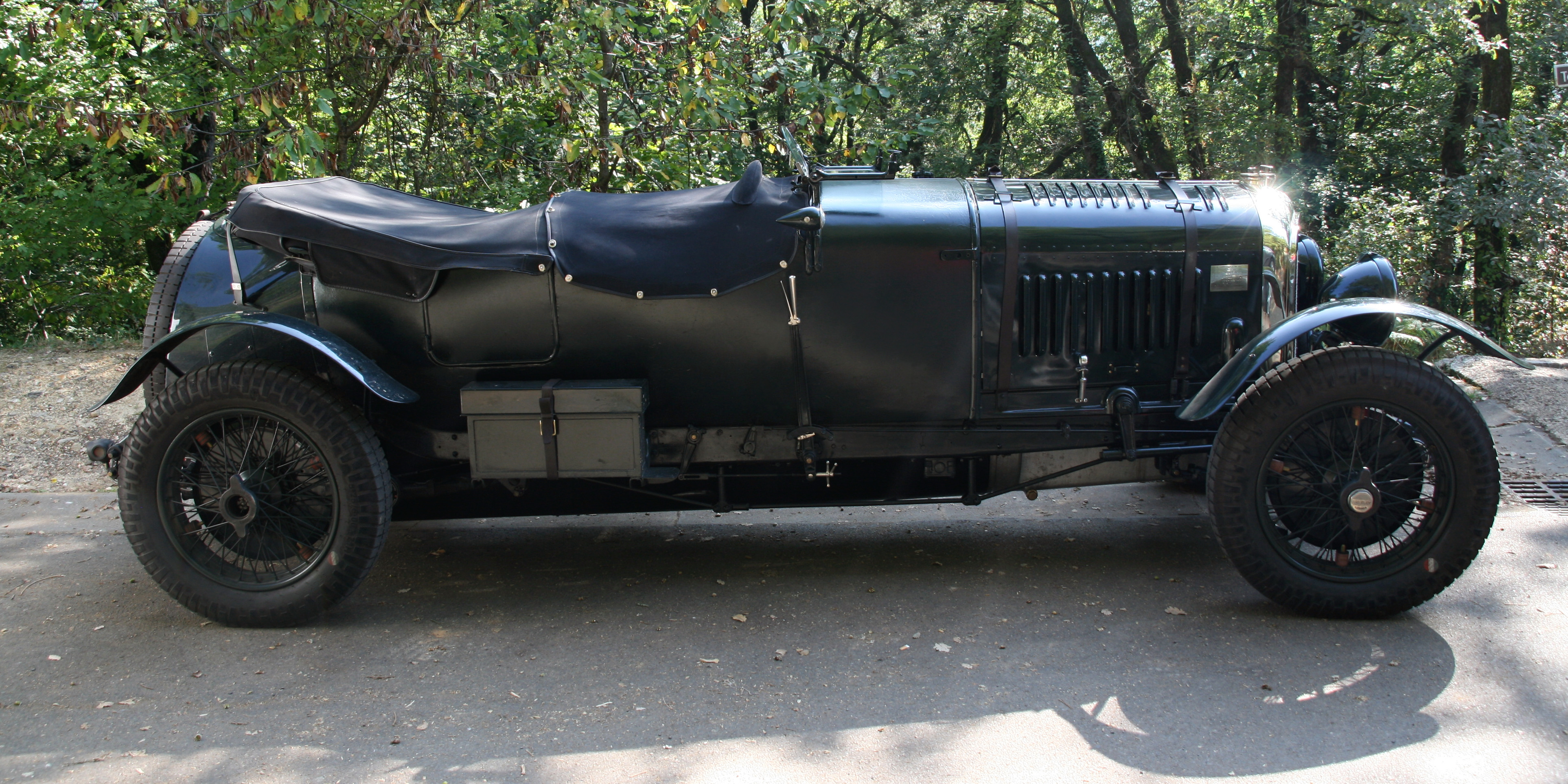 Right side of Bentley 4½ Litre n°10. Drived by the pilots Dr. Dudley Benjafield (U.K.) and André d'Erlanger (France), this vehicle finished third in the 1929 24 Hours of Le Mans.Photographed beside of the Rouffignac cave, Rouffignac-Saint-Cernin-de-Reilhac, Dordogne, France. English registration plates.